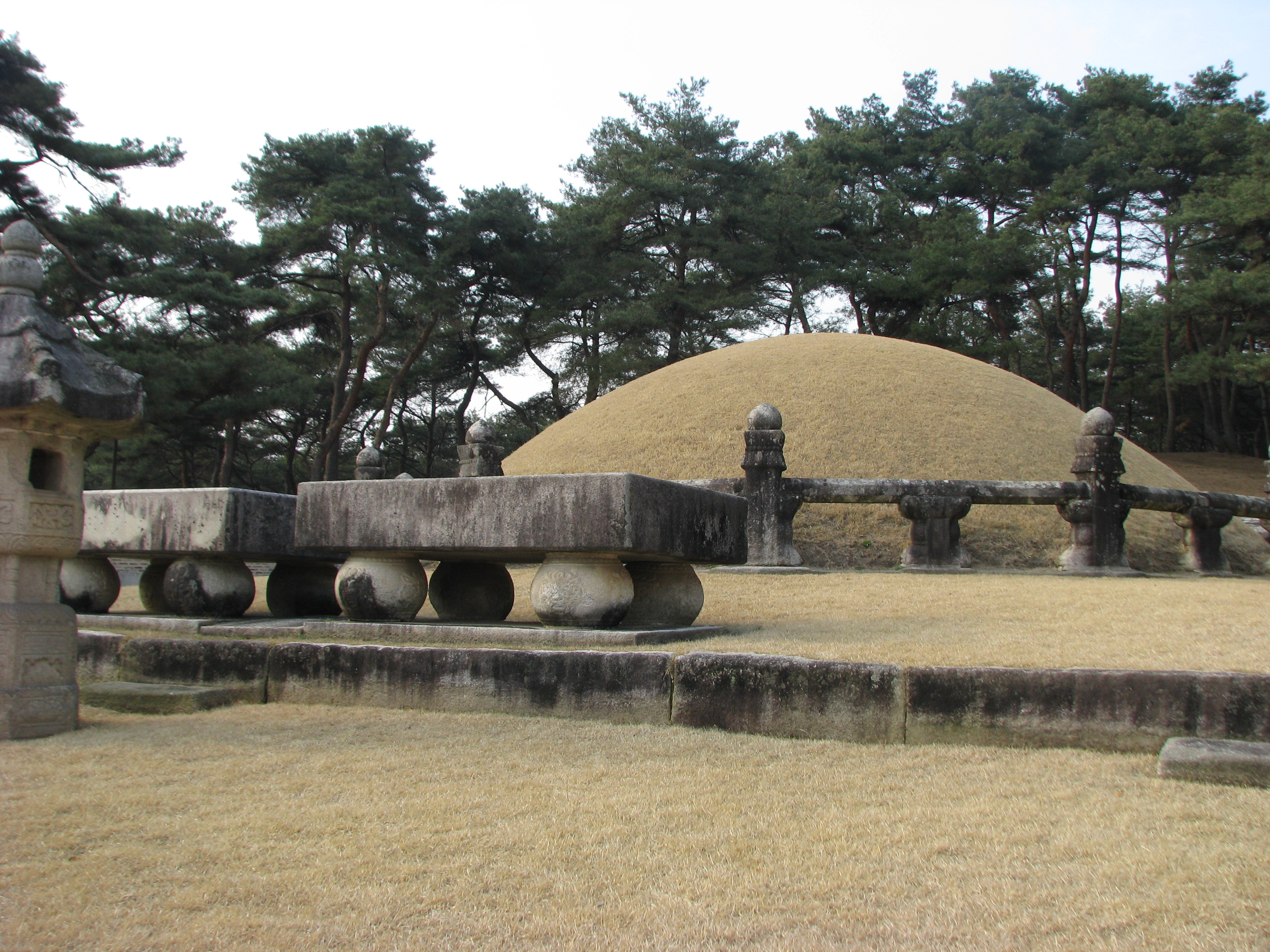 Sejong tomb